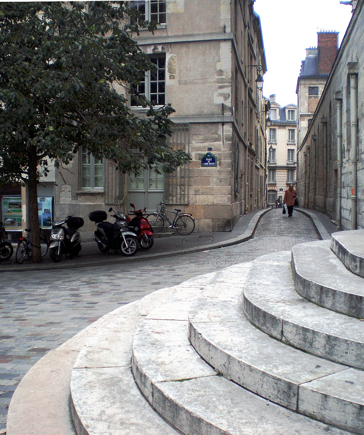 Saint-Etienne du Mont street - Paris